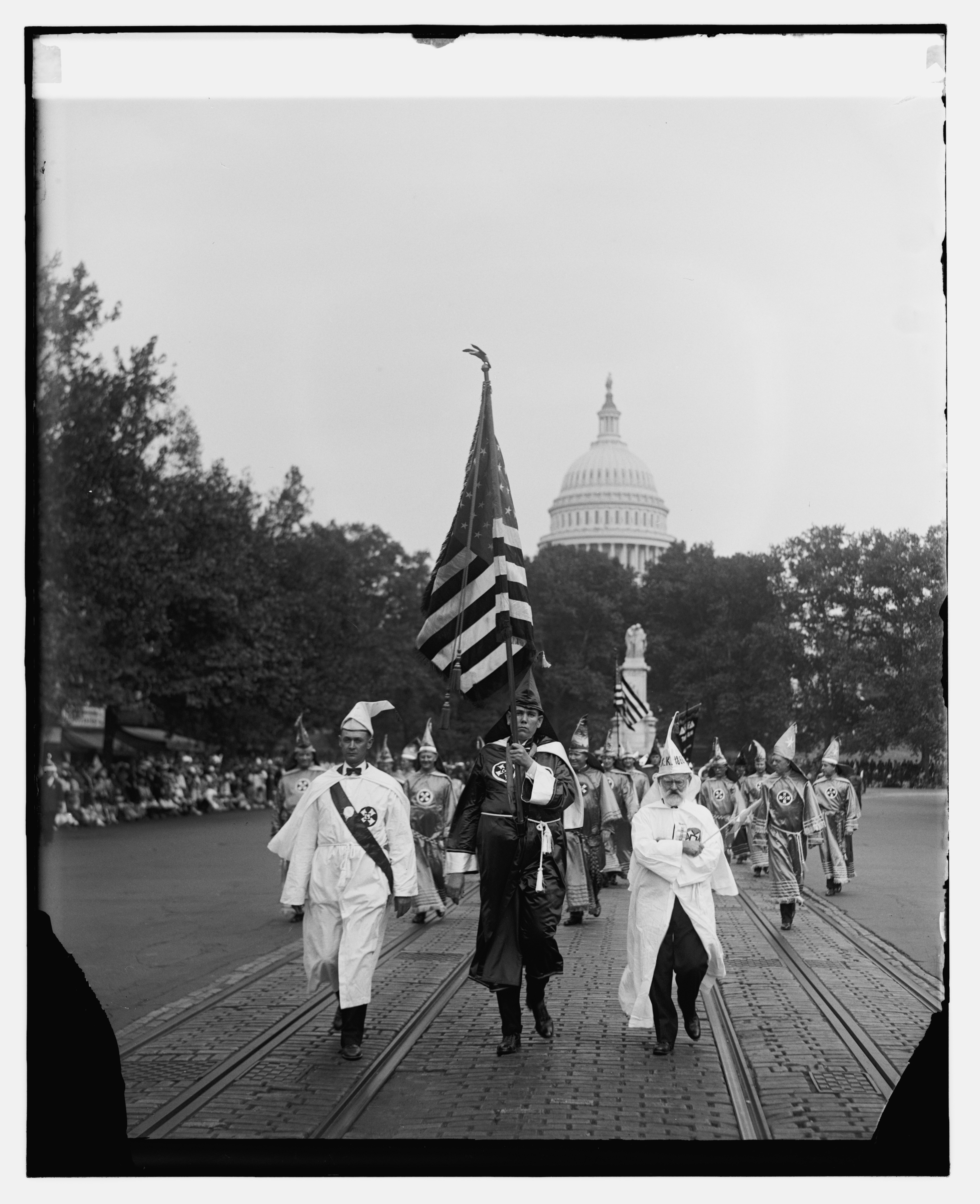 Ku Klux Klan parade, 9/13/26